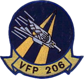 Insignia of the U.S. Navy Reserve Photographic Reconnaissance Squadron 206 (VFP-206).